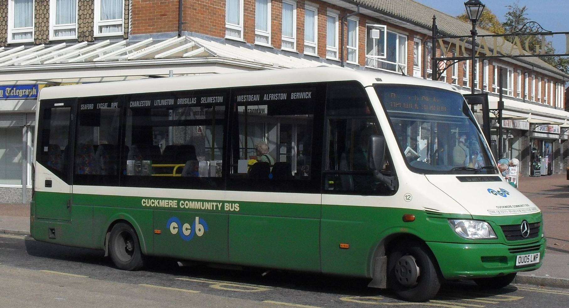 The Cuckmere Community Bus runs various routes in the rural area between Lewes, Heathfield and Eastbourne. OU05 LWP is waiting at the Vicarage Field bus stand in Hailsham, waiting to start a service to Berwick station on 8th October 2010.